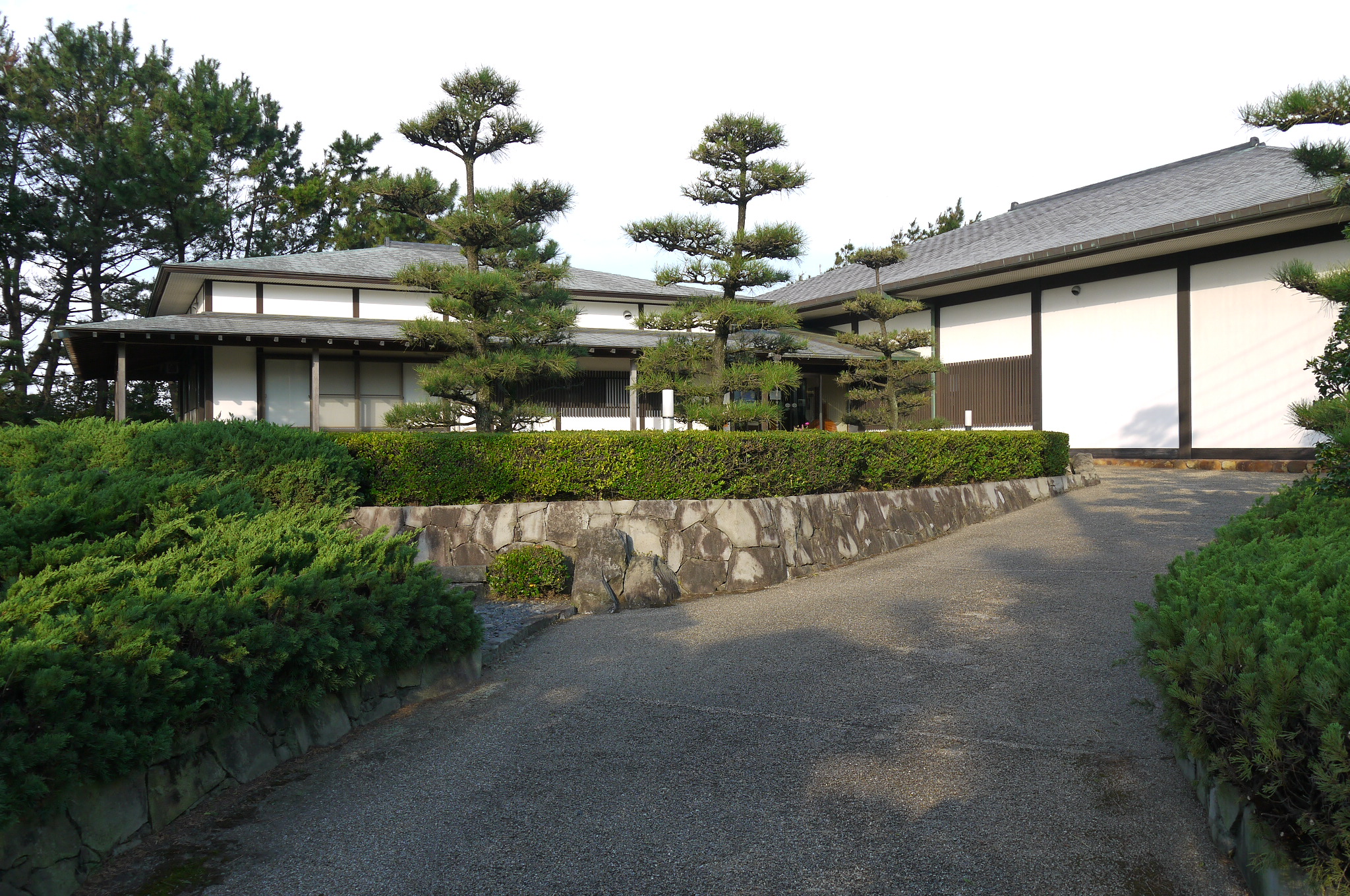 Bokusui Wakayama Memorial Hall in Numazu, Shizuoka Prefecture, Japan.